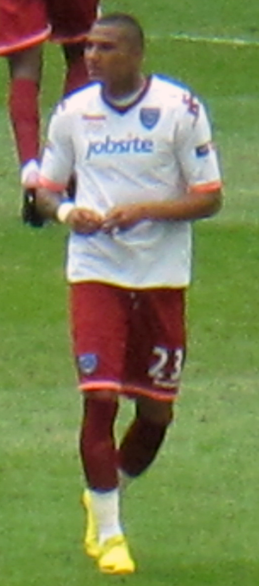 Kevin Prince Boateng, for Portsmouth in the 2010 FA Cup Final